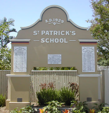 Honour board of past students of St Patrick's College that served in World War II.